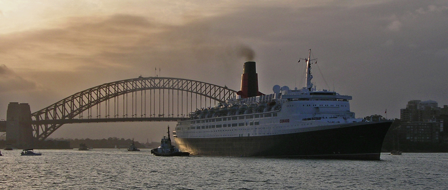 QE2 leaving Sydney Harbour. 18 February 2004. by User:Merbabu